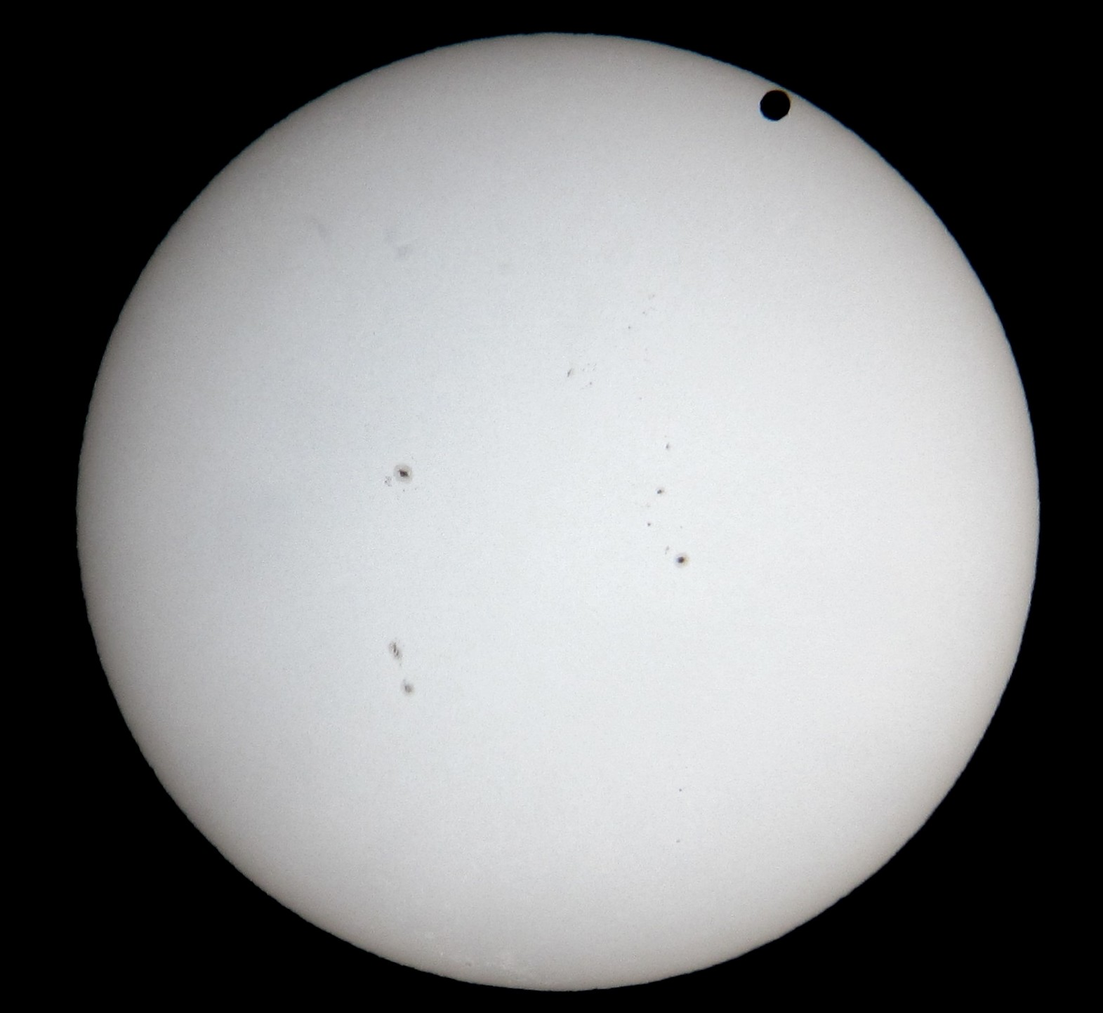 Transit of Venus taken at 5:25pm Central June 5th 2012 from Wichita Falls, Texas